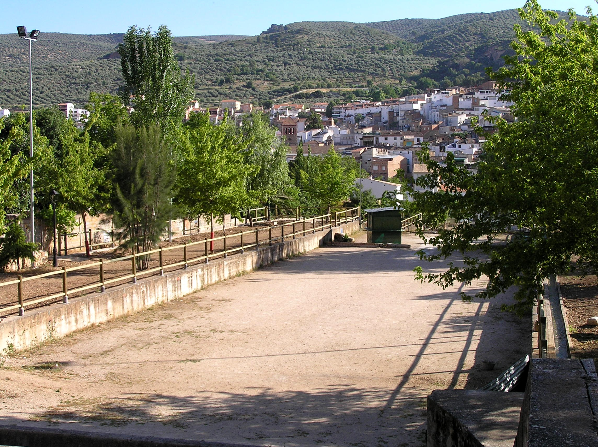 Pista de bolos serranos en Valparaiso